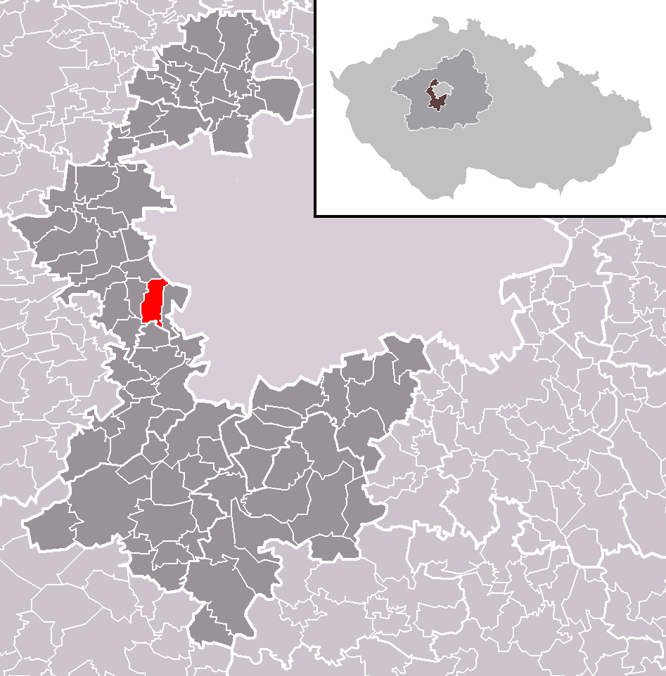 Location of Zbuzany municipality within Prague-West District and administrative area of Černošice as a Municipality with Extended Competence.